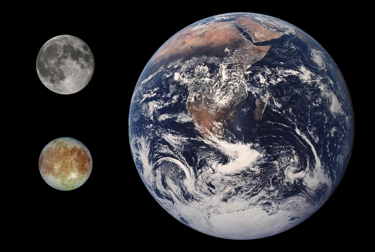 Diameter comparison of the Jovian moon Europa, Moon, and Earth. Scale: Approximately 29 km per pixel.